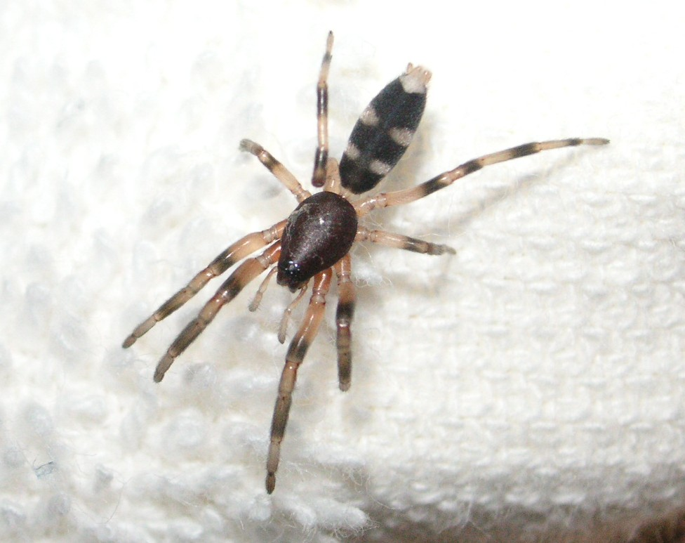 White-tailed spider, Australia According to Norman I. Platnick, this is a member of Lamponidae, most likely subfamily Lamponinae, but cannot be further determined from the picture alone. --Sarefo 13:38, 9 January 2007 (UTC)